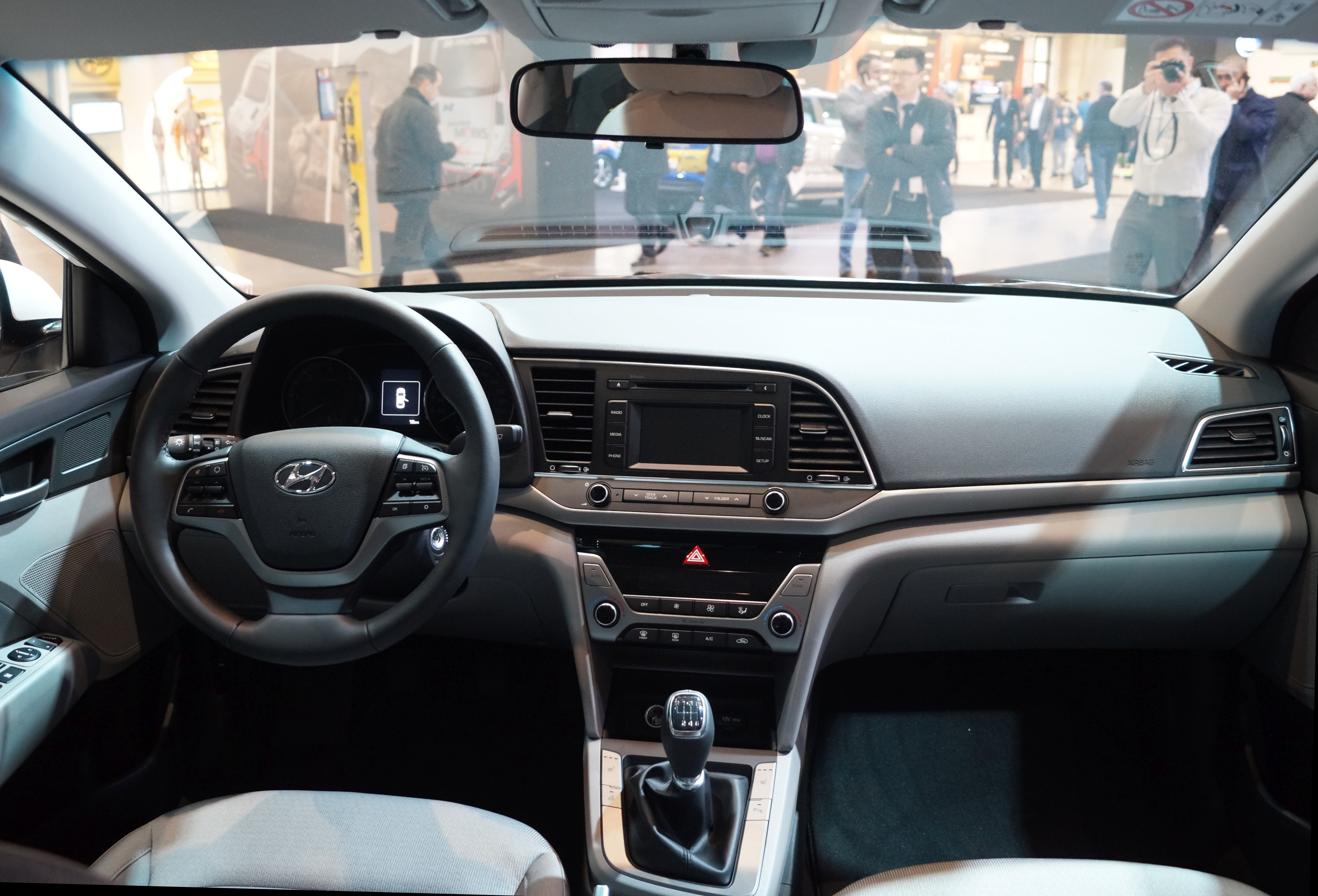 The making of this document was supported by Wikimedia Polska Association, within Wikigrant no. WG 2016-10. English | polski | +/− Wnętrze Hyundaia Elantry na Motor Show Poznań 2016